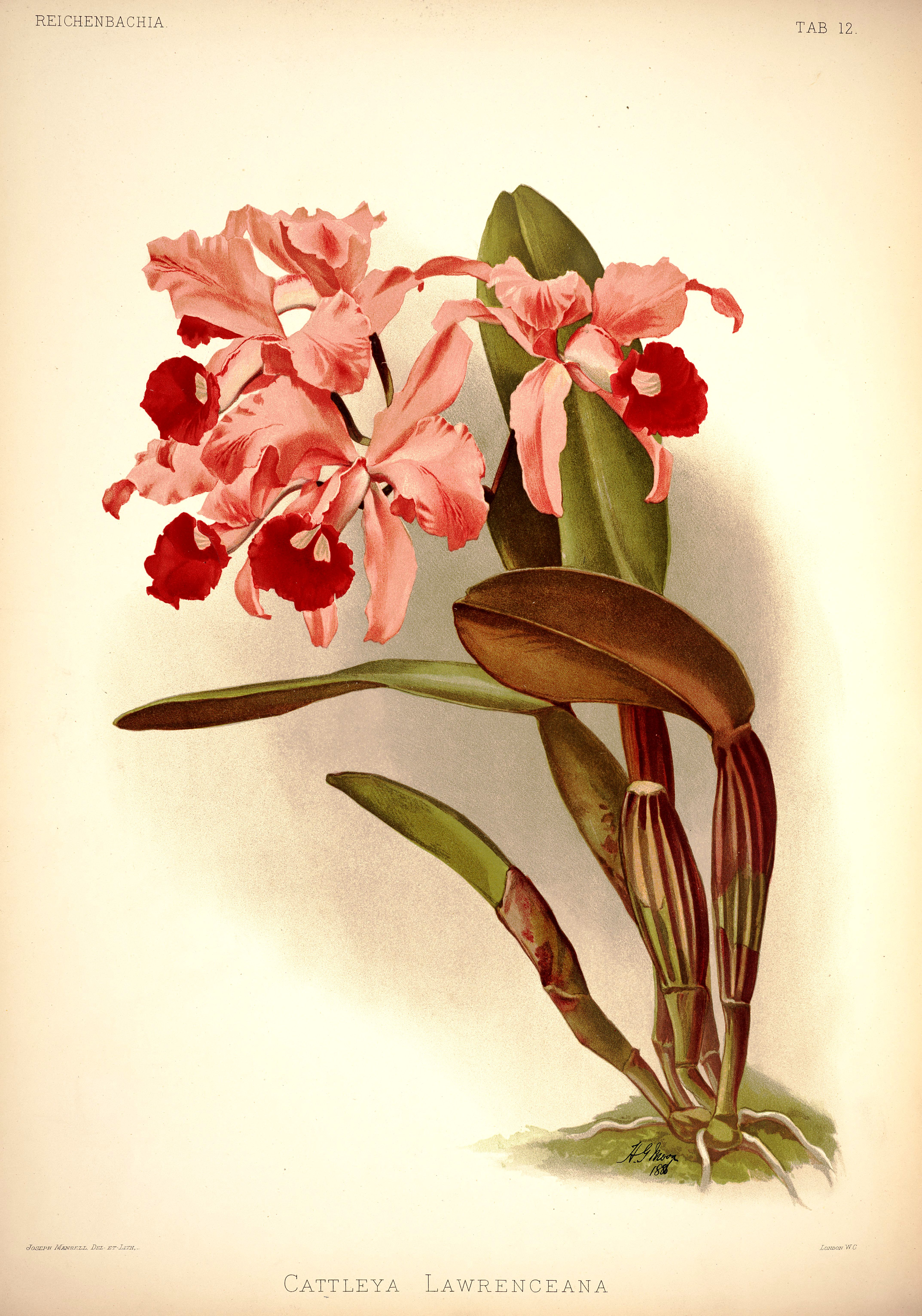 Cattleya lawrenceana